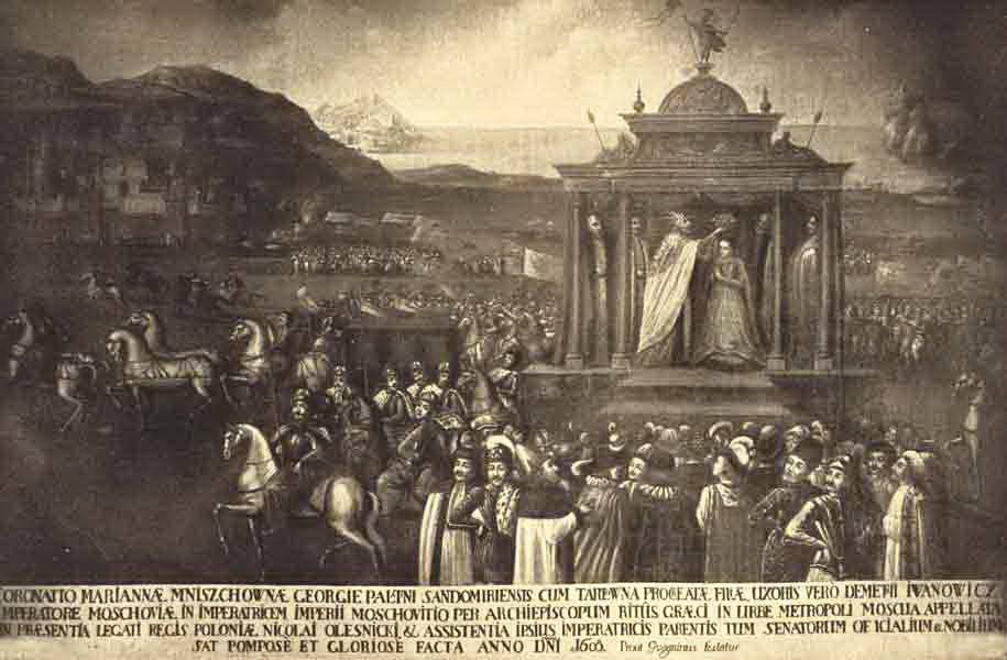 Marina Mniszech enters Moscow